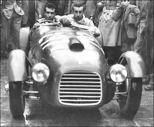 Entry #297 in Mille Miglia on 1–2 May 1948 was brothers Gabriele and Soava Besana in their 1948 Ferrari 166 SC s/n 004C (they did not finish the race).[1]